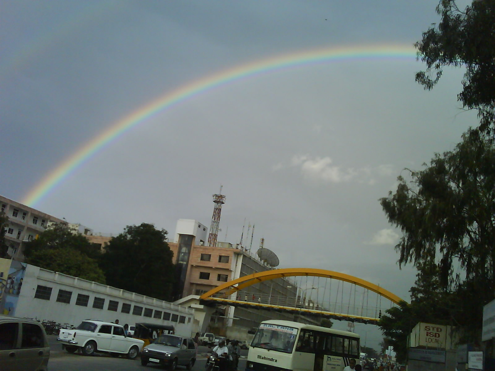 PSG Tech Bridge and Avinashi Road, Coimbatore